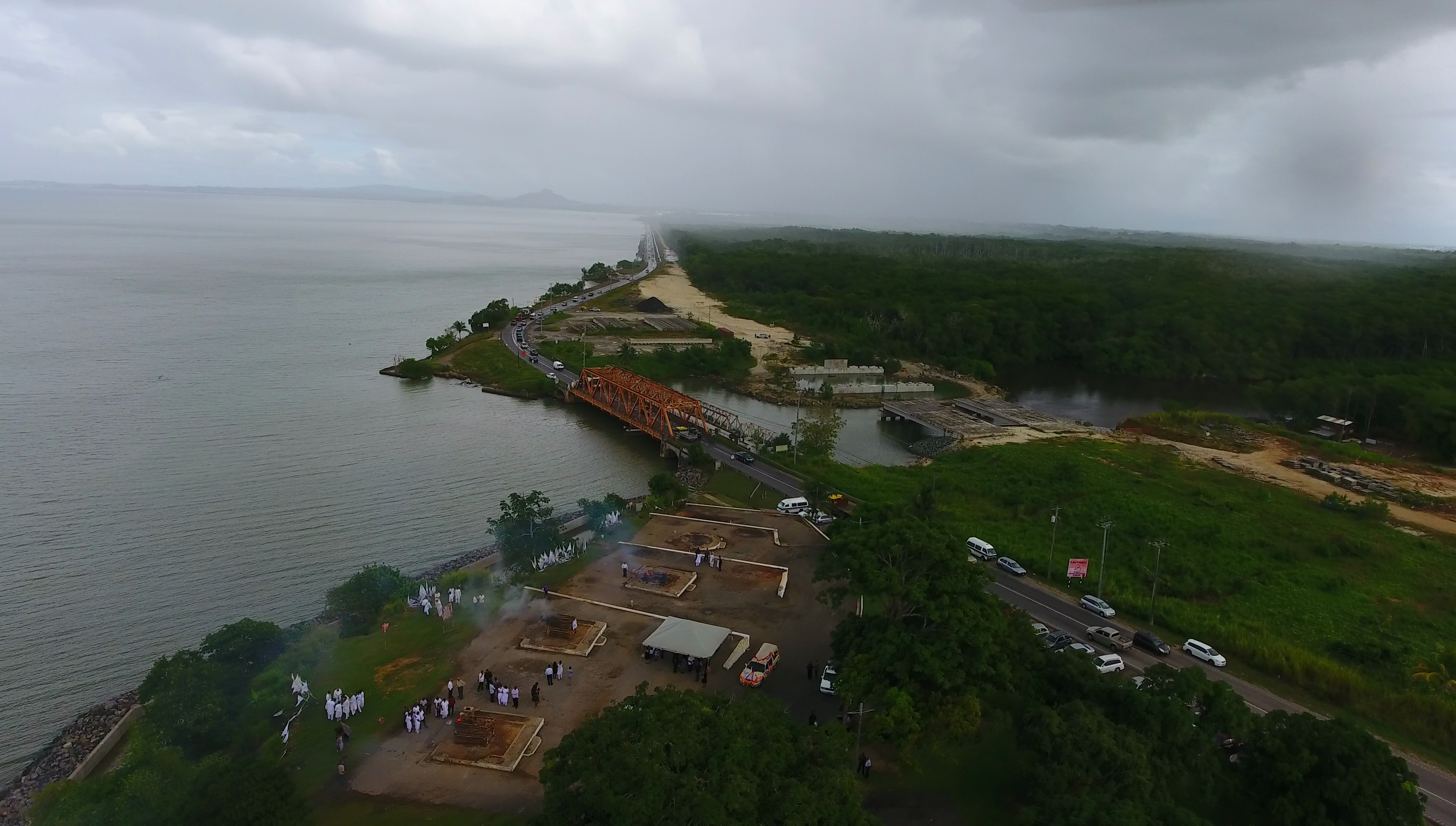 Southern Main Road at South Oropouche, Siparia, Trinidad and Tobago. Southern Main Road, at this point called "Mosquito Creek" by locals, crossing Godineau River and heading north towards rainy La Romain and eventually San Fernando. Forground: Mosquito Creek Cremation Ground. Photo taken as part of the Southern Trinidad Aerial Photo Project, a small project sponsored by WMDE. Drone used: DJI Phantom 4. Snapshot taken from video footage via VLC.